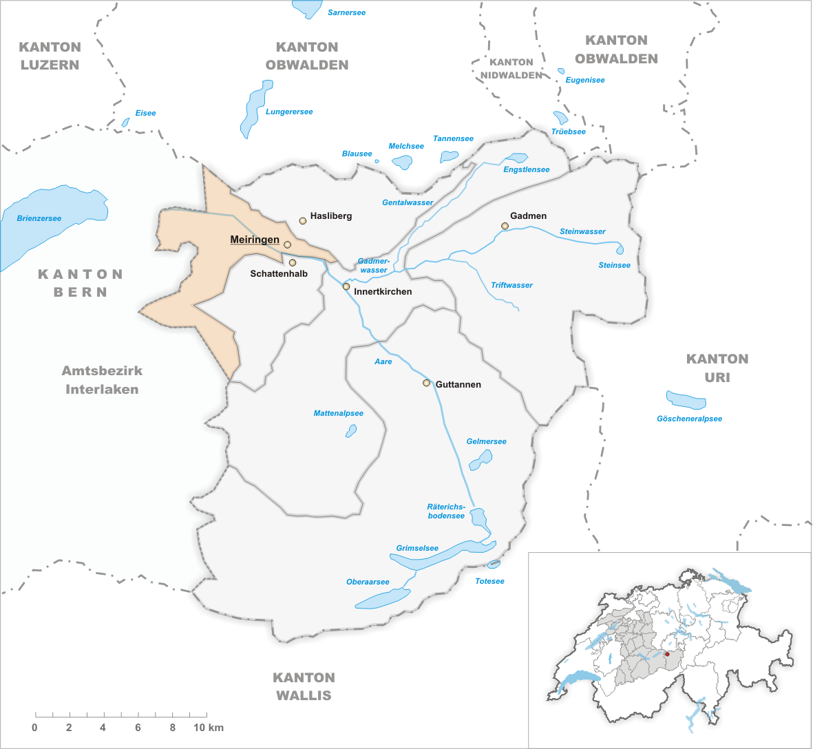 Municipality Meiringen